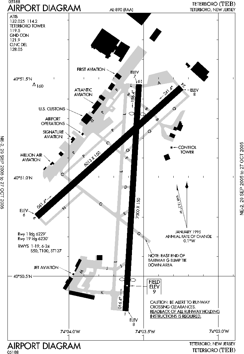 FAA airport diagram for Teterboro Airport (TEB) in Teterboro, New Jersey, United States.